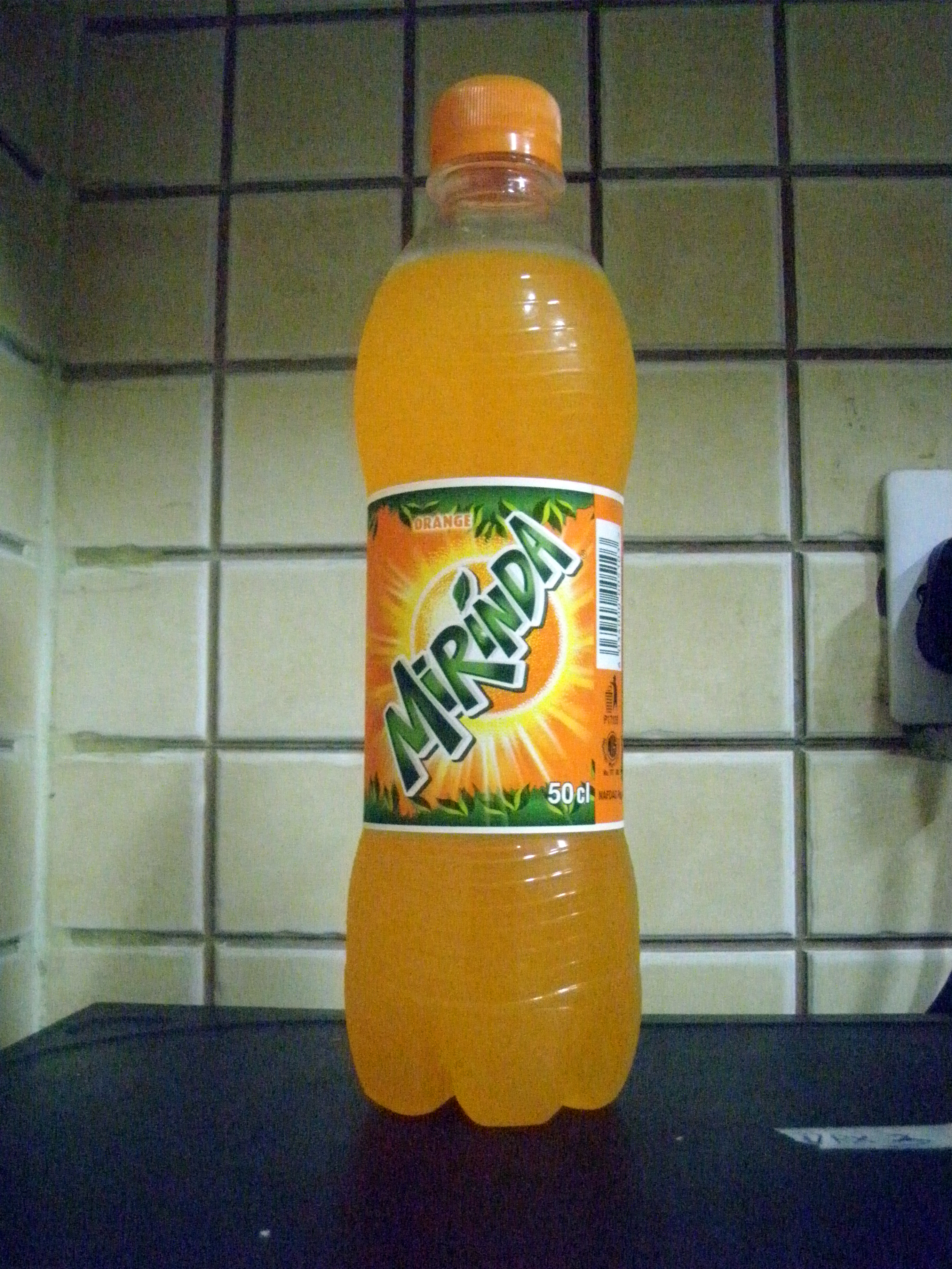 A nigerian plastic bottle of orange Mirinda.